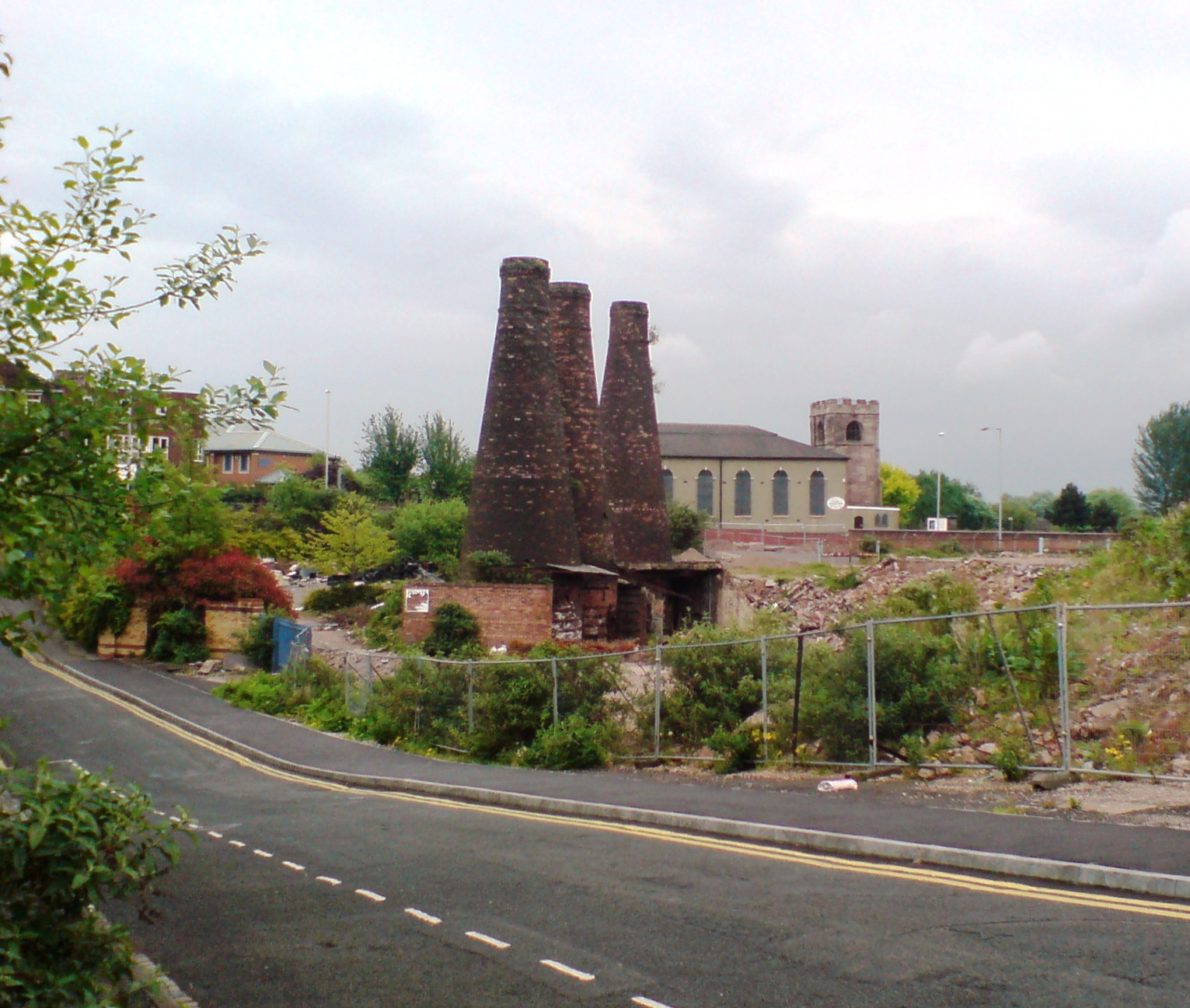 Disused Bottle ovens of Acme Marls on Bourne's Bank, Burslem, Stoke-on-Trent, with St. John's Church, Woodbank Street, in the background whose sandstone tower dates from 1536, May 2008